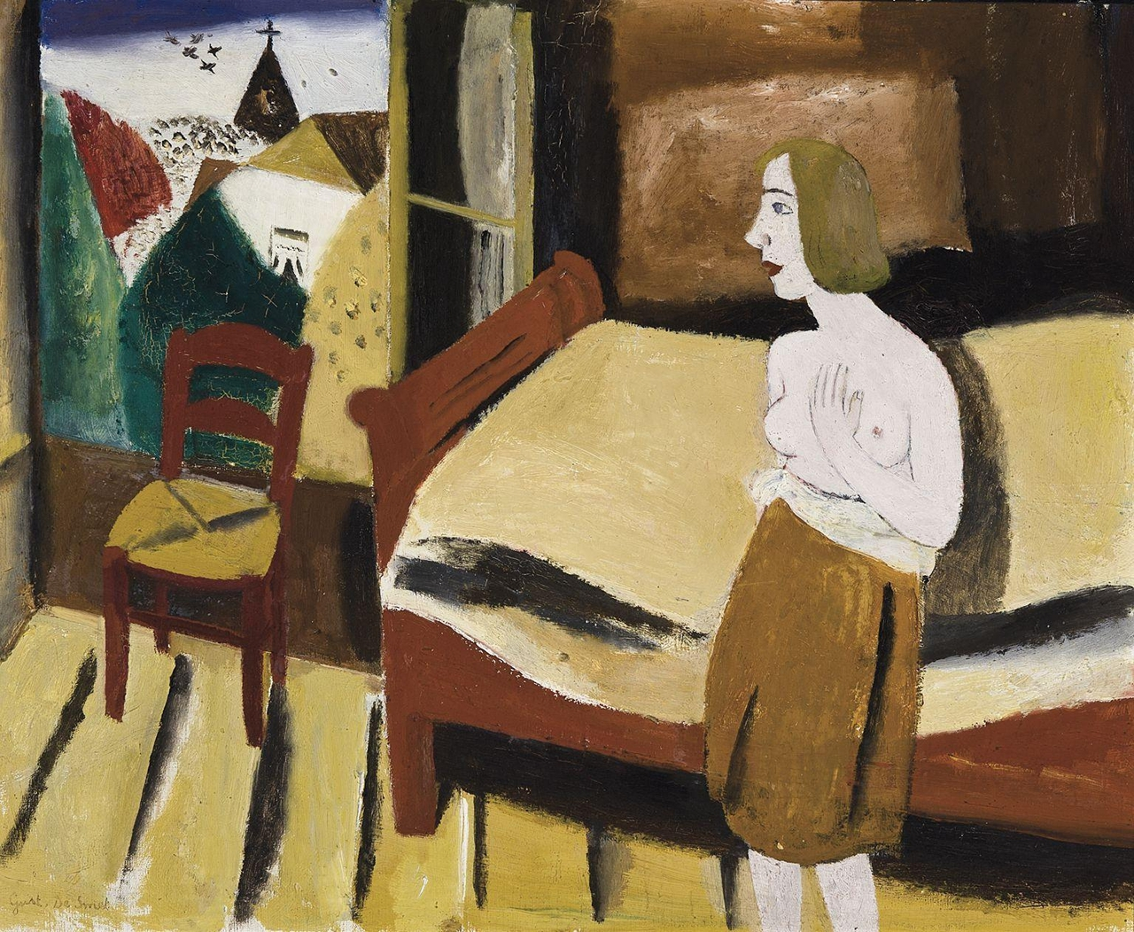 Густав де Смет (нидерл. Gustave de Smet, род. 21 января 1877 г. Гент — ум. 8 октября 1943 г. Дёрле, Восточная Фландрия) — бельгийский художник, писавший свои работы в преимущественно импрессионистском и экспрессионистском стилях. ======================= Gustave Franciscus De Smet (21 January 1877 – 8 October 1943) was a Belgian painter. Together with Constant Permeke and Frits Van den Berghe, he was one of the founders of Flemish Expressionism. His younger brother, Léon De Smet, also became a painter.